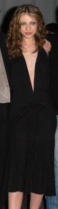 Michelle Trachtenberg at the Buffy the Vampire Slayer wrap party.